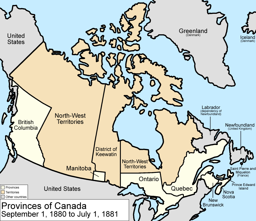 Map of the provinces and territories of Canada as they were from 1880 to 1881. On September 1 1880, the Arctic Islands, previously a British territory, become part of Canada and are made part of the North-West Territories. On July 1 1881, the borders of Manitoba expanded using land from the North-West Territories, but part of their eastern expansion causes a border dispute with Ontario. Made by User:Golbez.